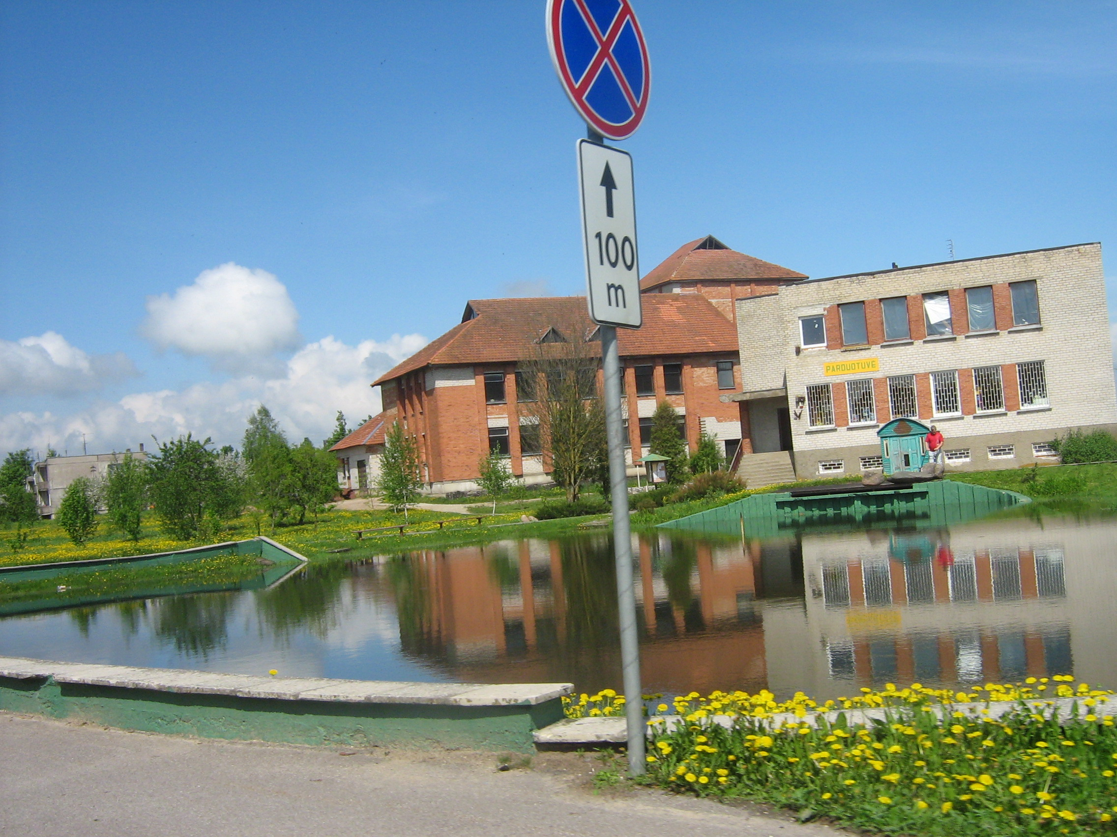 Bukonys